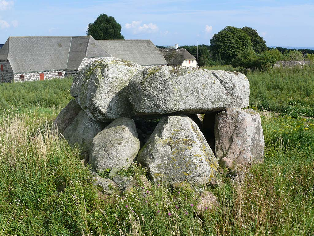 Site Name: Bjerne Knoldsborg Jættestue 2 Alternative Name: Knoldborg Country: Denmark County: Svendborg (Fyn South + Langeland) Type: Passage Grave Nearest Town: Fåborg Nearest Village: Bjerne Latitude: 55.076372N Longitude: 10.203713E